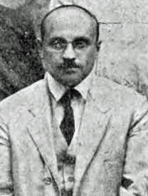 Photo of Ilya Rabinovich. Contrast improved from file:Ilya_Rabinovich.jpg